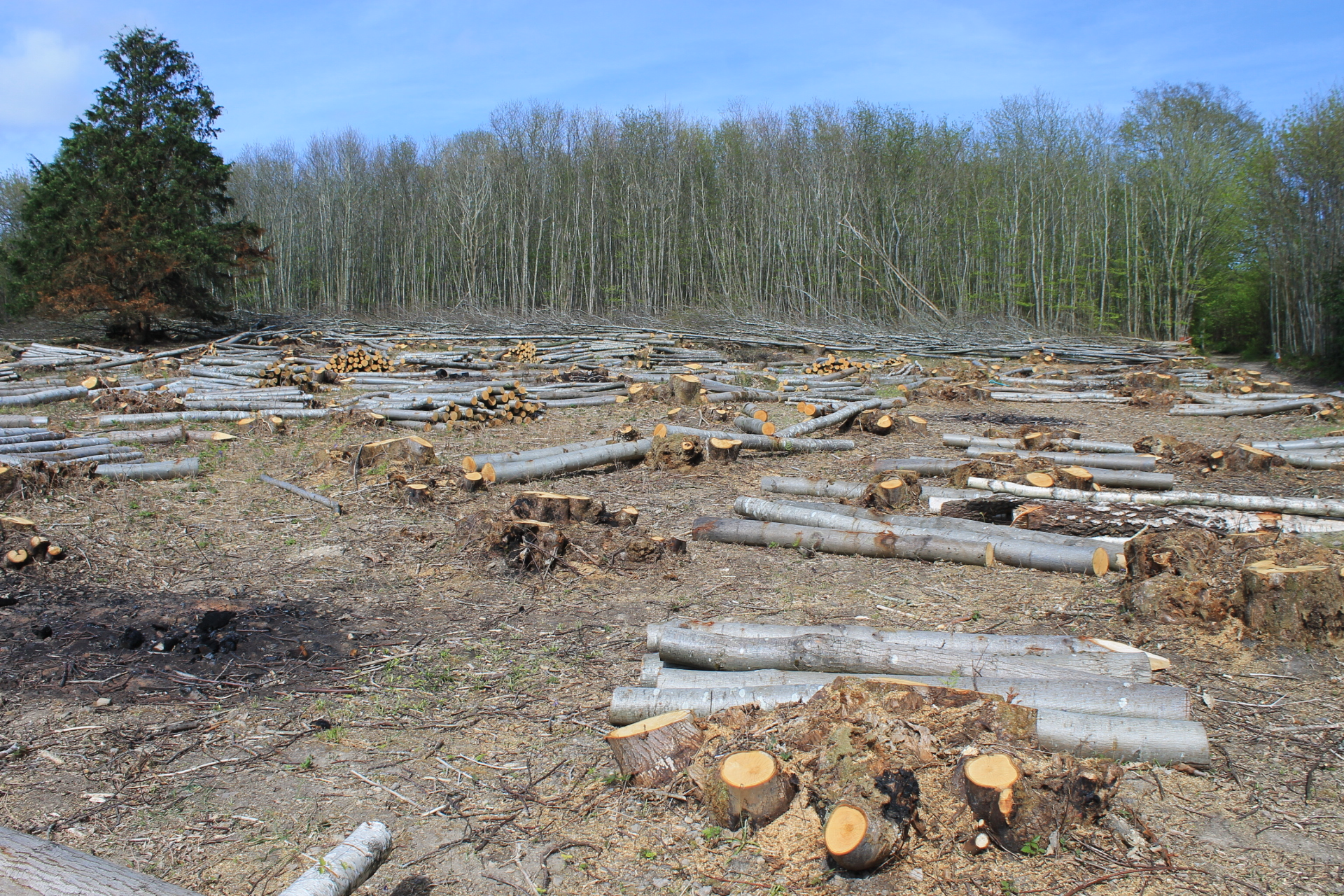 Recently felled chestnut coppice at Flexham Park, near Petworth, West Sussex, England.